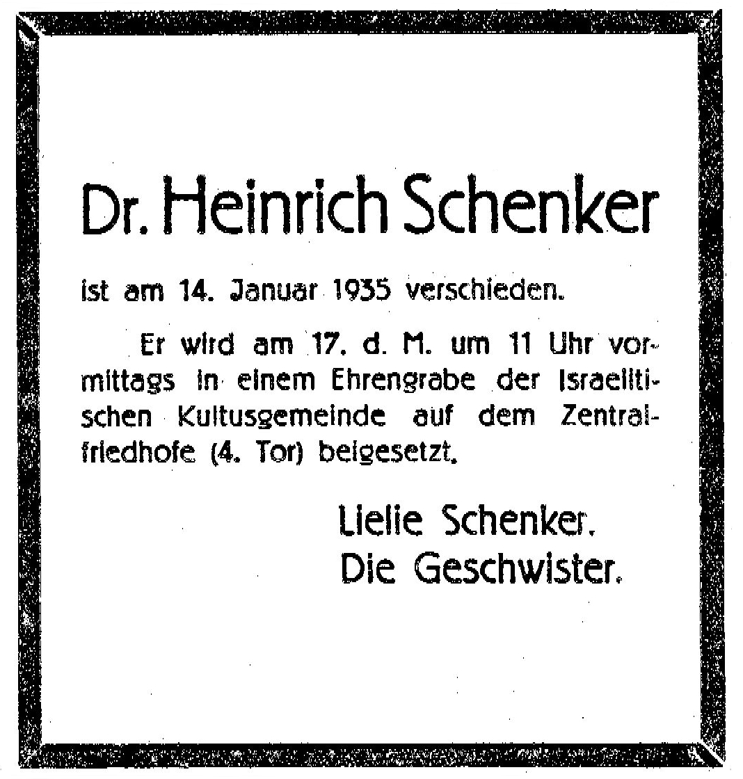 Death notice for Heinrich Schenker